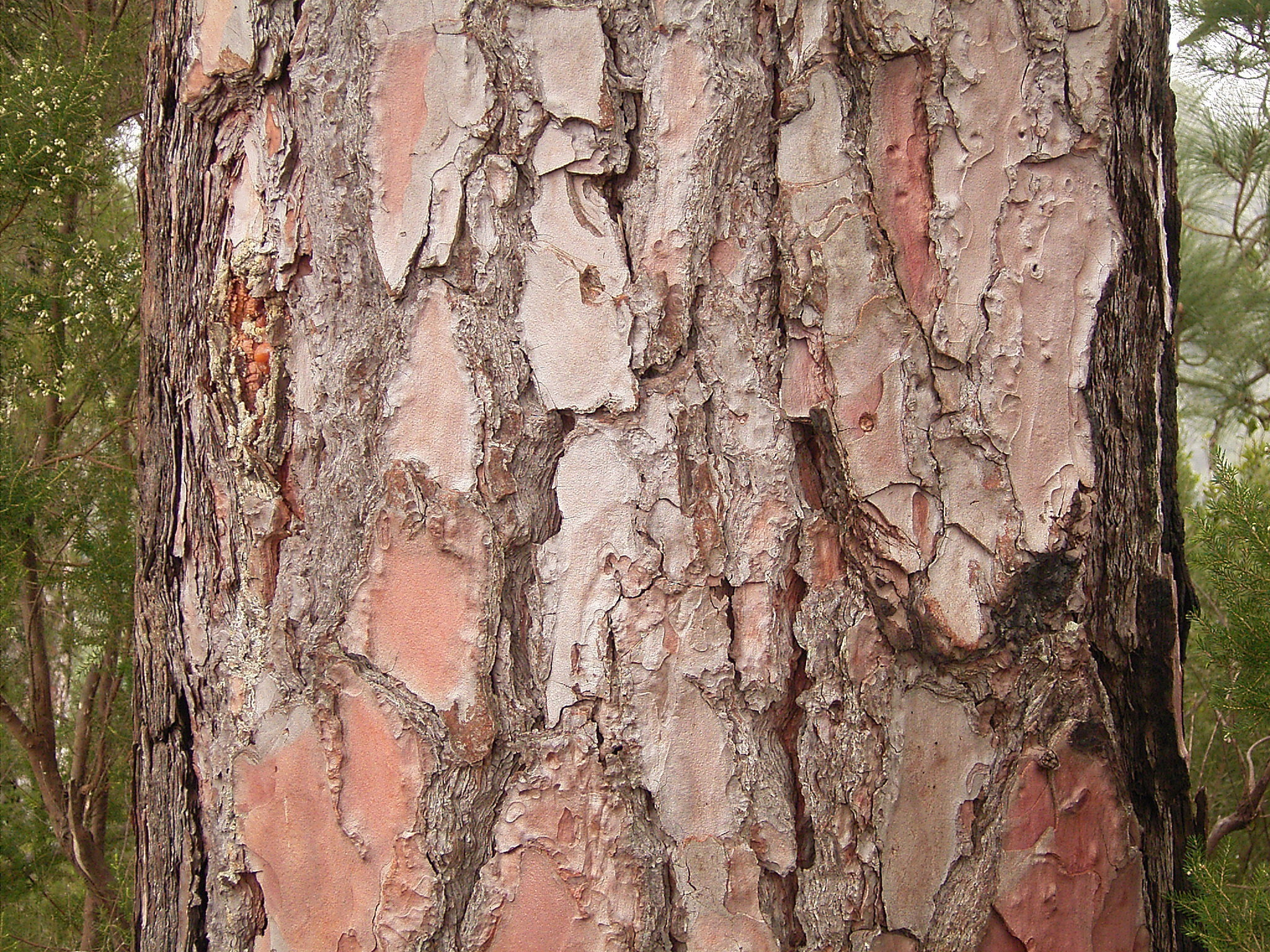 Pinus canariensis growing in Barlovento, La Palma, Canary Islands